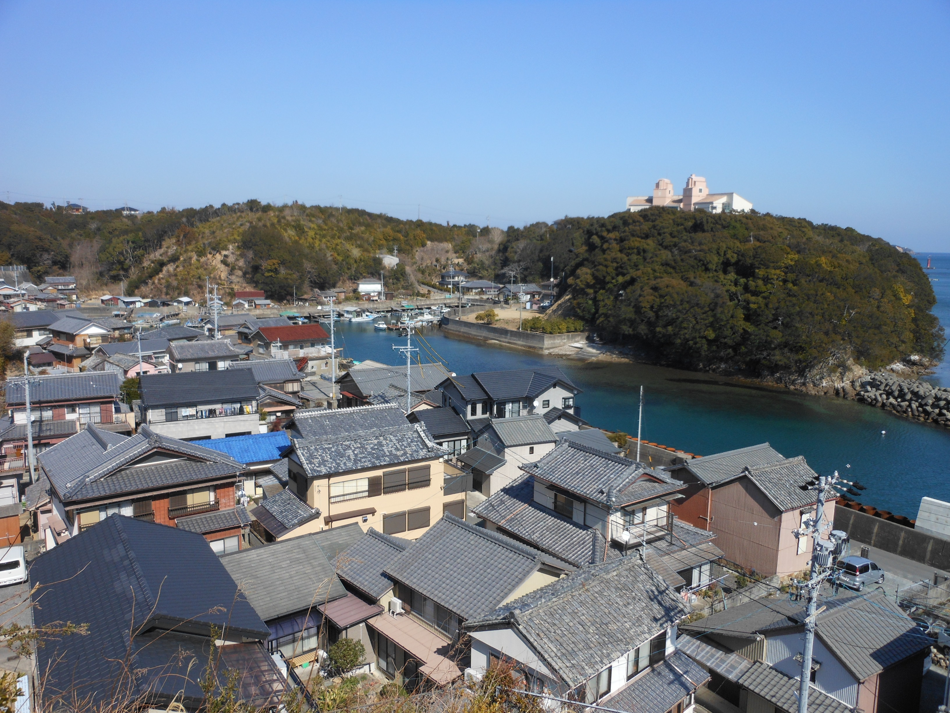 This is a landscape of Isobecho-Matoya, Shima city, Mie prefecture, Japan.